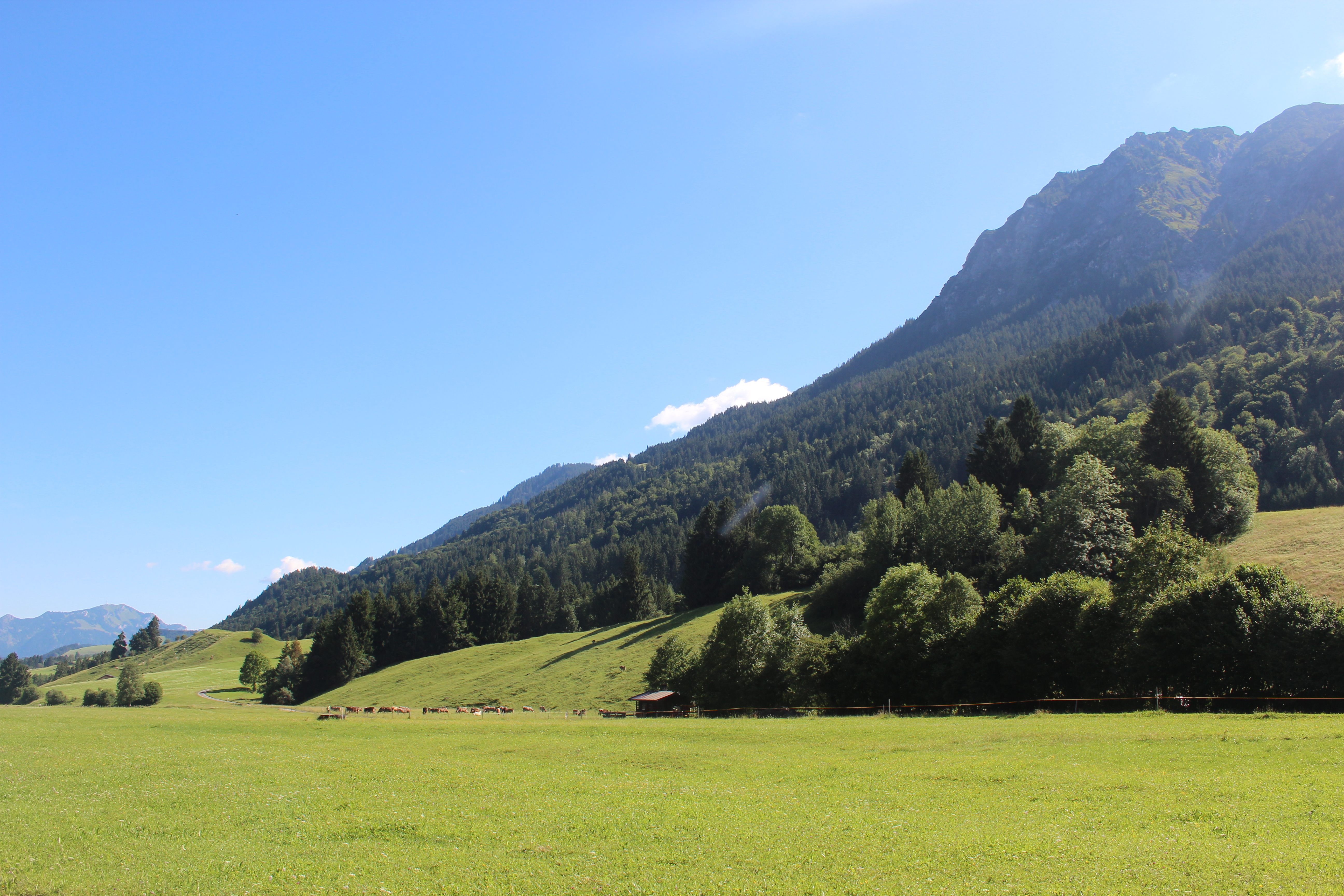 The foot of Schnippenkopf mountain in Oberstdorf, Germany. The photo was taken: Summer 2017.